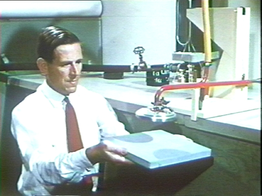 Photograph of "Jack" Frost (John Carver Meadows Frost) at work in his Avro Canada laboratory (photo: 1952). He demonstrates the Coandă effect. Pressurized air flows out of the end of the red tube, and then over the top of the metal disk. The Coandă effect makes the air "stick" to the disk, bending down at the edges to flow vertically. This airflow supports the disk in the air. The image in question, was part of a film project that I was involved in as screenwriter, original author and technical consultant. In the research phase, I obtained the rights to the extant Avro Aircraft film archives and the image was a still from an original 16 mm print that was used in the forthcoming book and documentary film. At the conclusion of the project, I retained rights to the research material. Bzuk (talk) 17:15, 22 November 2009 (UTC).